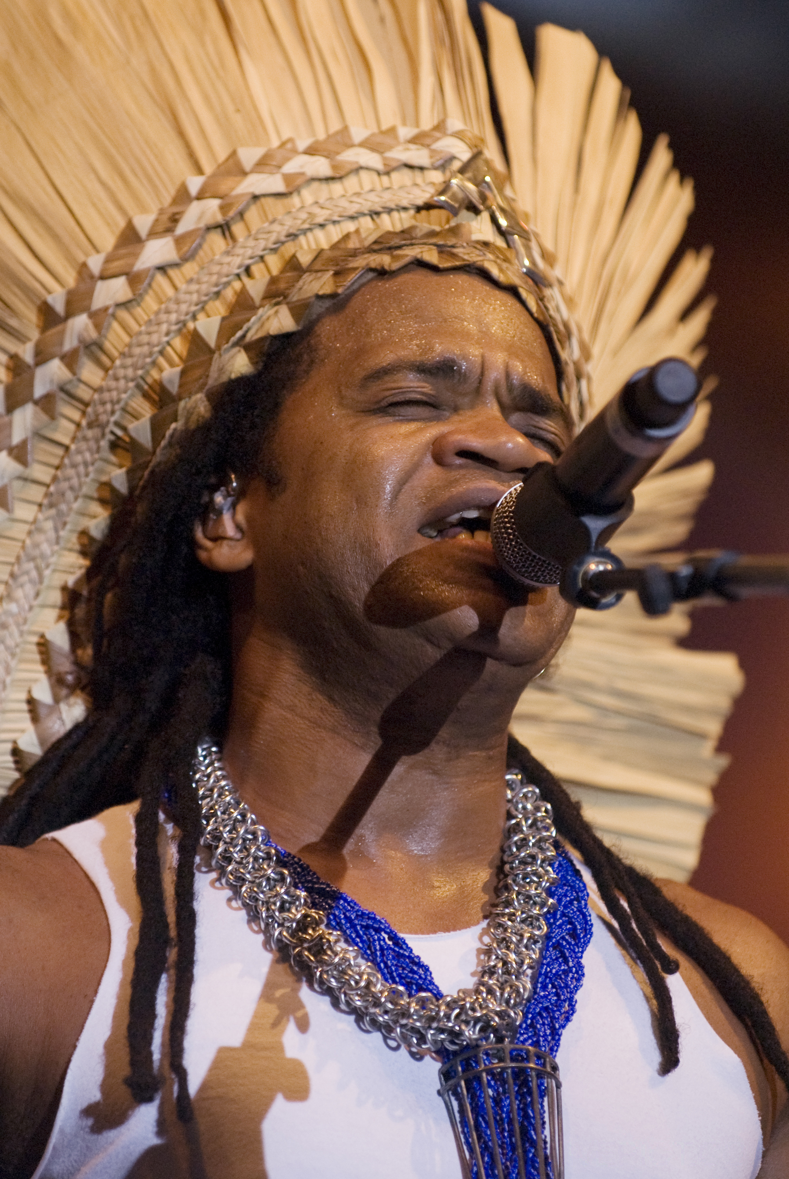 Carlinhos Brown